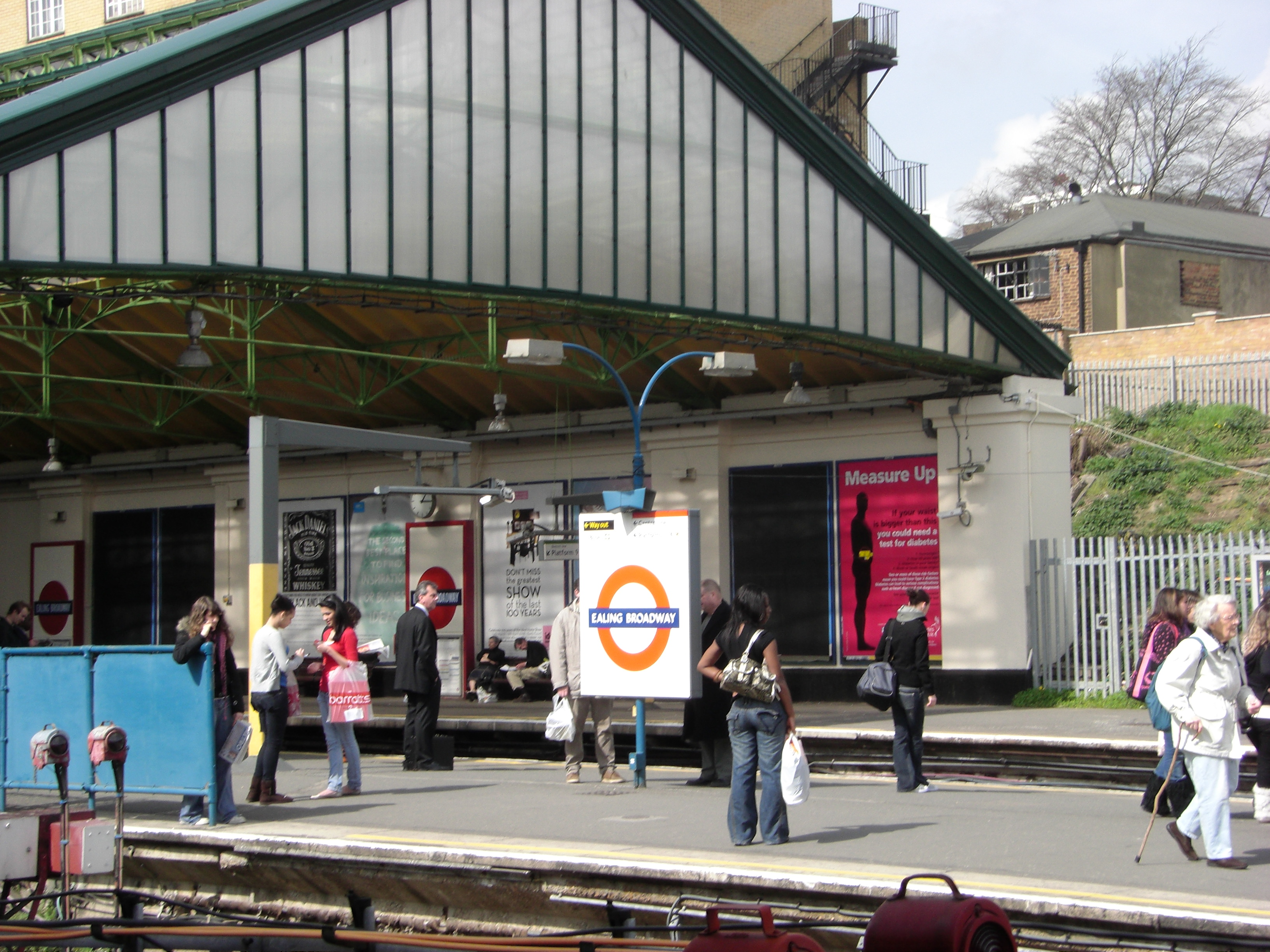 Platform 9 at Ealing Broadway station.